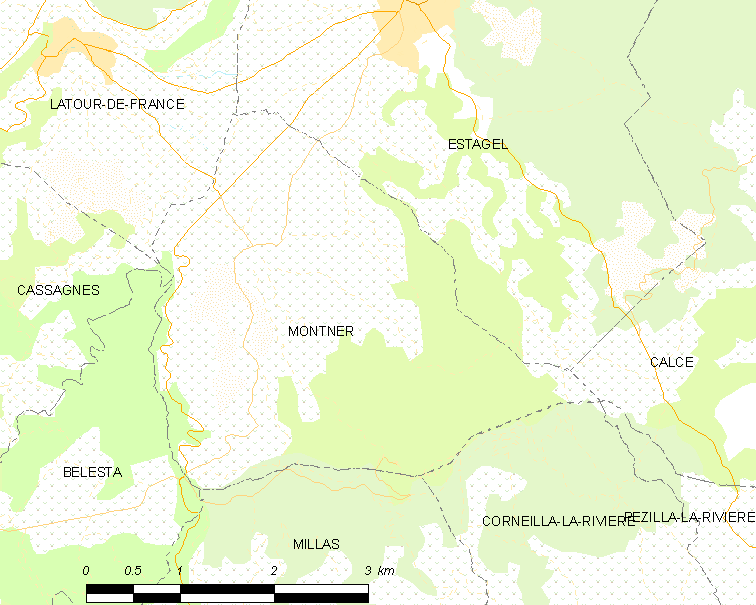 Map of French municipality